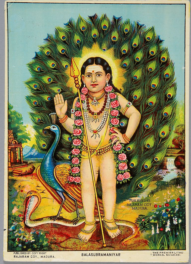 Murugan standing with his right hand raised and left hand resting on hip.